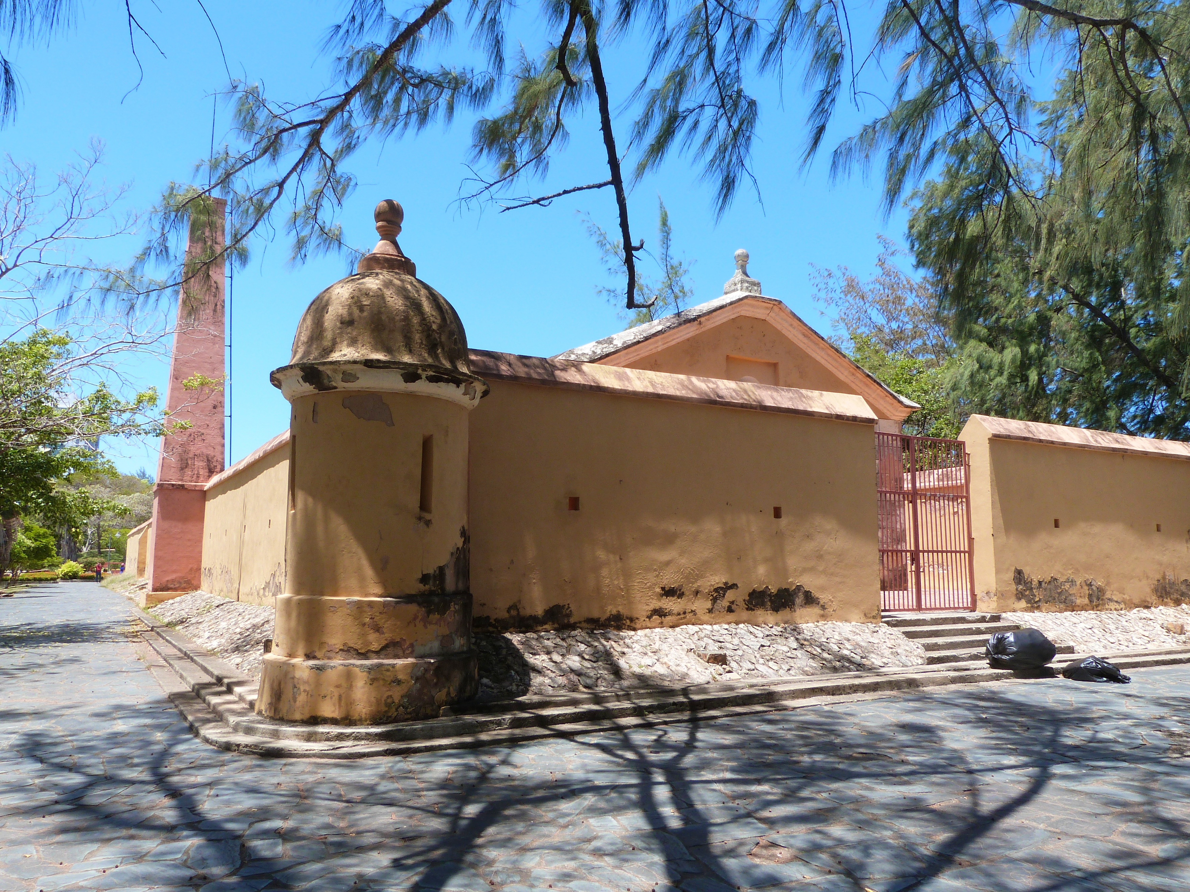 The historic Polvorín de San Gerónimo (bult 1769–1772), located in Luis Muñoz Rivera Park, San Juan, Puerto Rico, is listed as a contributing resource in the Línea Avanzada historic district. The historic district is listed on the U.S. National Register of Historic Places.